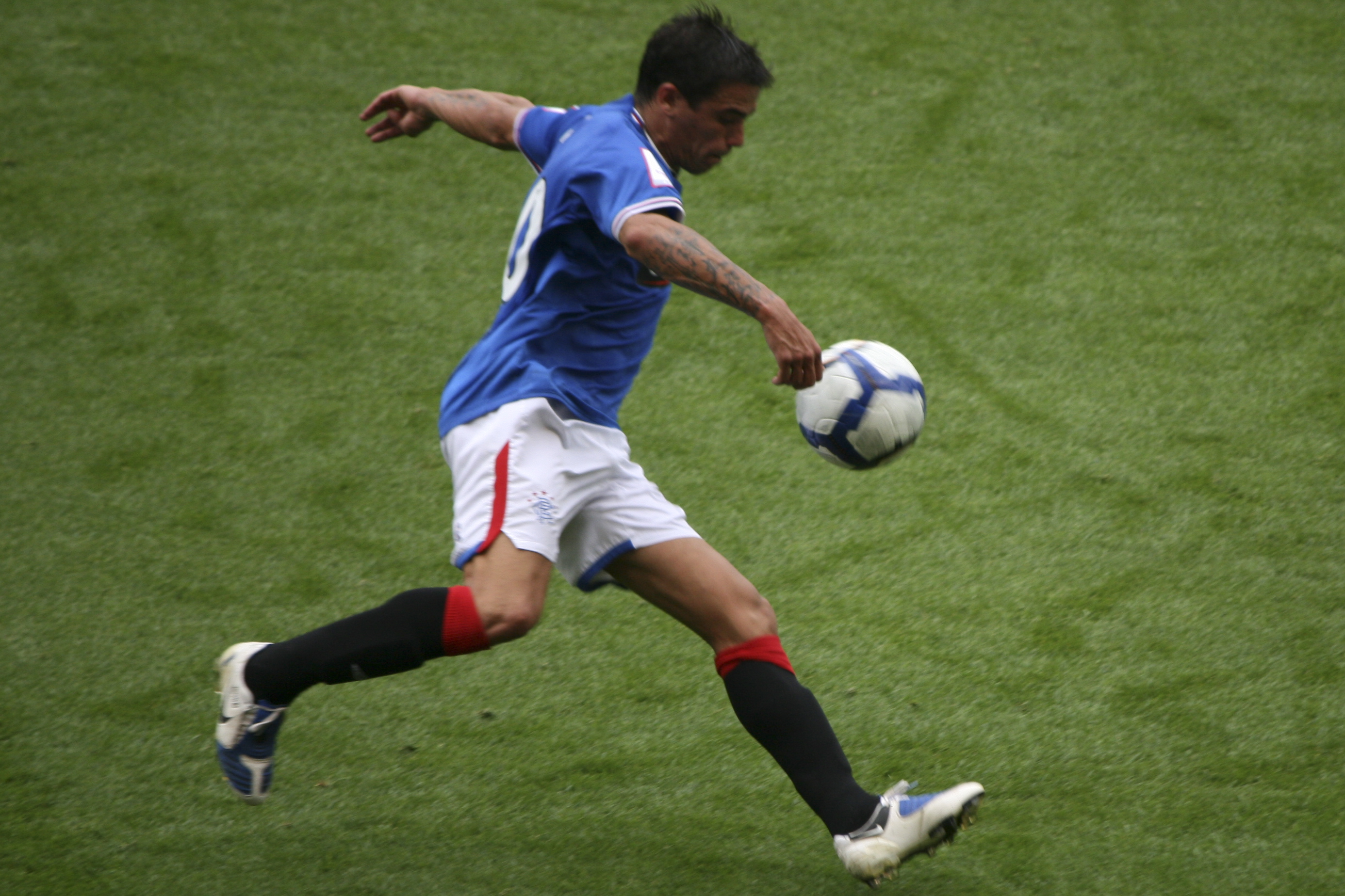 Rangers Vs. Paris Saint-Germain Emirates Cup 2009, Emirates Stadium Nacho Novo